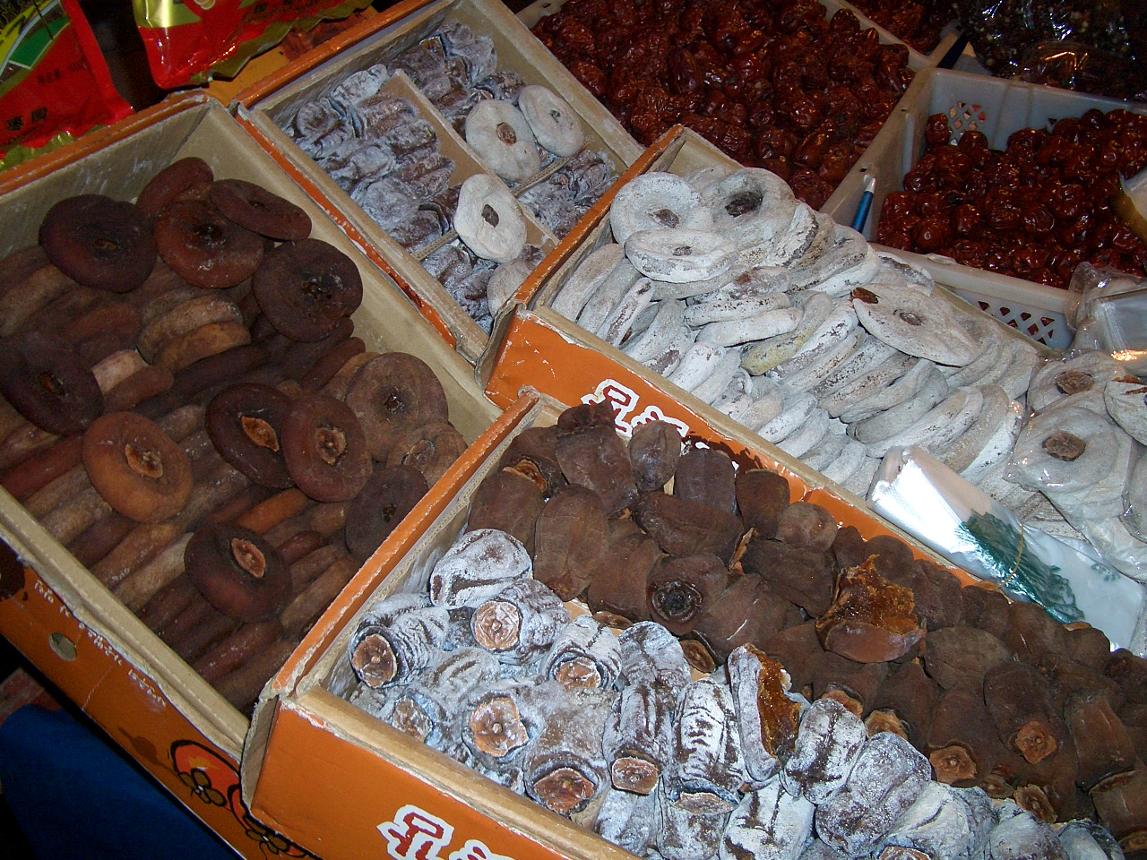 A selection of dried persimmon at a dried fruit vendor in the night market outside of the Drum Tower of Xi'an